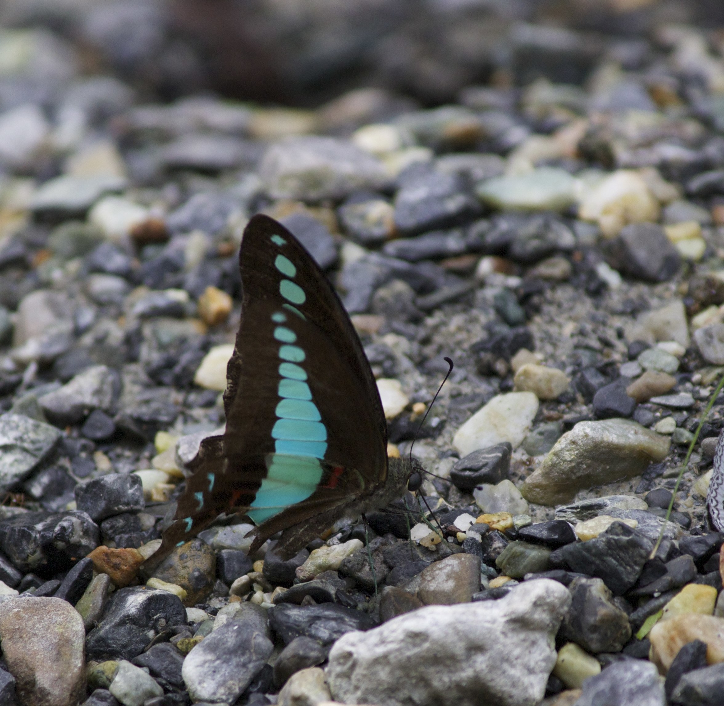 This image was taken in the project Wiki Loves Butterfly. Close wing position of Male of Graphium sarpedon Linnaeus, 1758 – Common Bluebottle